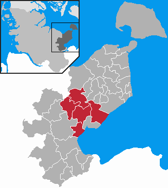 This map shows the area of the Amt (county) Ostholstein-Mitte in the Kreis (district) Ostholstein, Schleswig-Holstein, Germany.